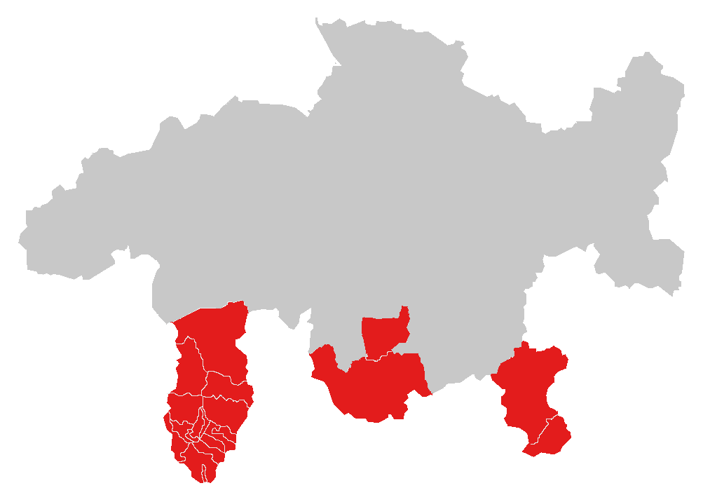 Italian Graubünden: the part of Canton Graubünden (Switzerland) where Italian is spoken.